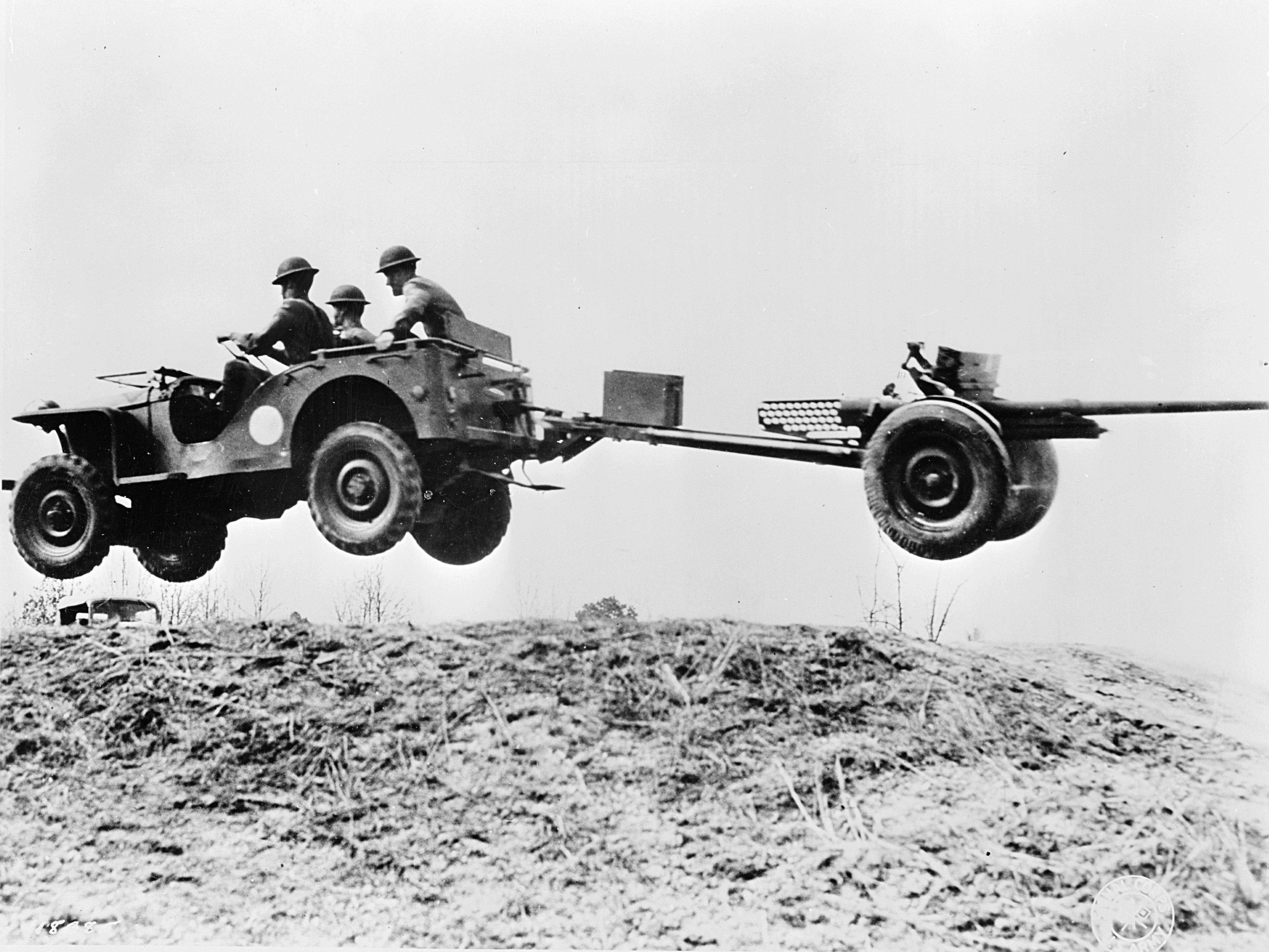 Bantam car in mid-air. This photo was taken in 1941 at New River, North Carolina during early testing of the Bantam jeep, the forerunner of the Willys MB and Ford GPW jeeps that became the World War II standard. This photo of the Bantam has all four wheels off the ground (six if you count the towed 37mm Antitank gun), the inspiration for the "Flying Jeep" poster and similar depictions.